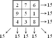 A magic square with the constant row, column and diagonal sum shown explicitly.